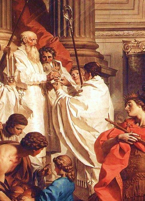 Mass of St. Basil